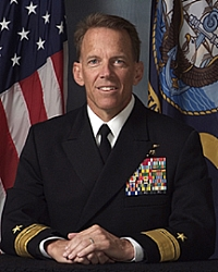 Rear Admiral Kerry M. Metz - Commander, Special Operations Command North